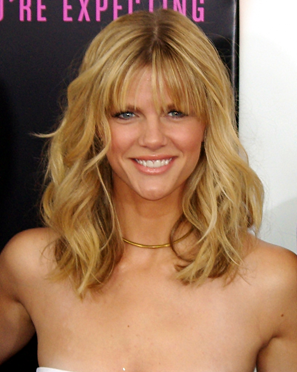 Brooklyn Decker at the 2012 premiere of What to Expect When You're Expecting in New York